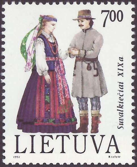 Stamp of Lithuania; 1992; commemorative issue "Lituanian National Costumes - I"; Inscription (vertical, right): "Suvalkiečiai XIX a." (= "(Costumes...) of Suvalkija, 19th century" = contemporary Suwałki in Poland) Stamp: Michel: No. 510 (LT); AFA: No. 507 (LT) Color: multicolored on coated paper Nominal value: 7,00 (Talonai) (= 700 of an imaginary, not circulating currency unit) Postage validity: from 18 October 1992 until 27 June 1993 date QS:P,+1992-00-00T00:00:00Z/8,P580,+1992-10-18T00:00:00Z/11,P582,+1993-06-27T00:00:00Z/11 Stamp picture size: 29 x 36 mm